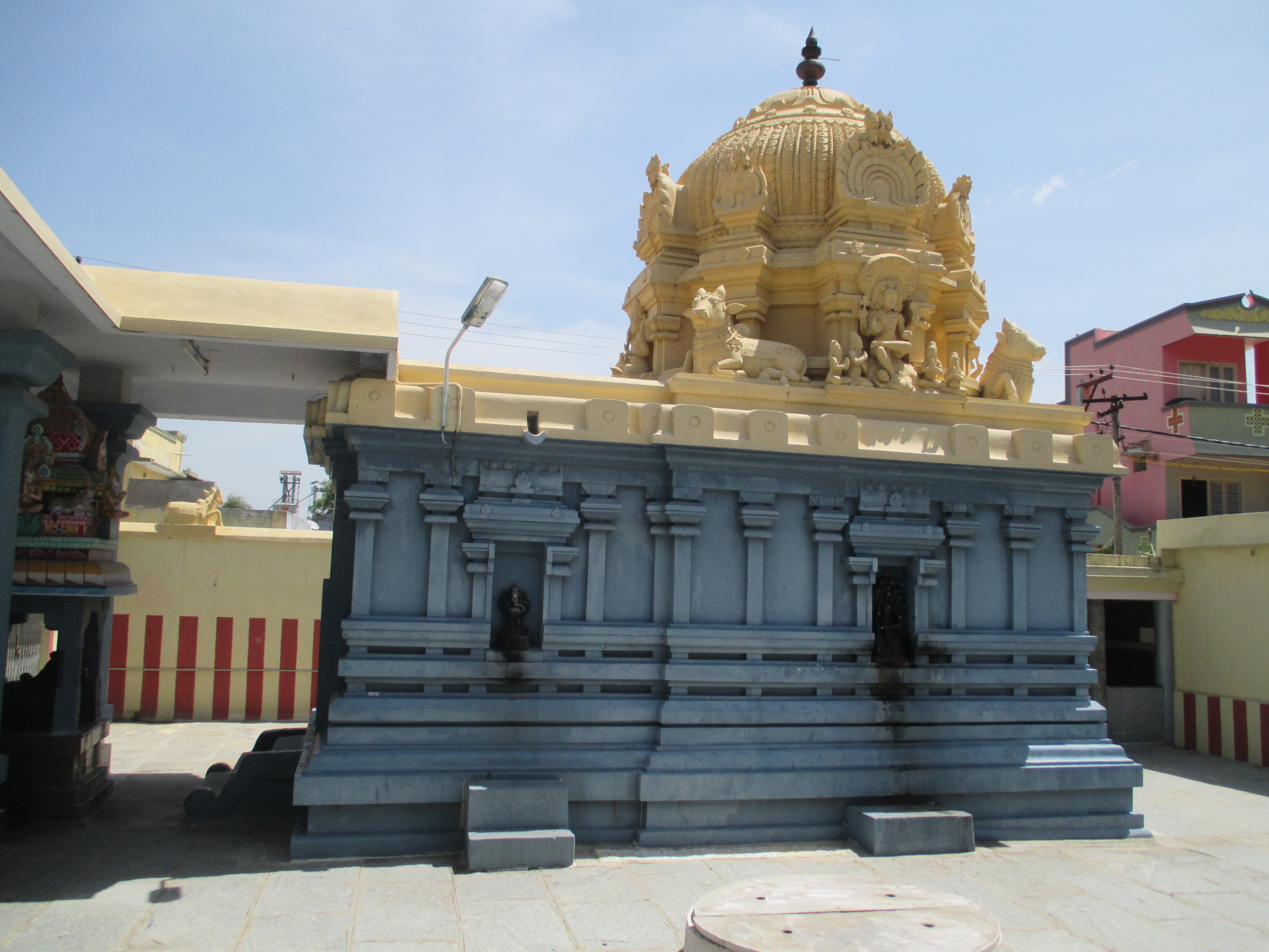 Metraleeswar Temple